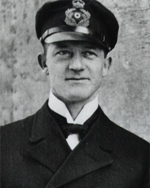 Kapitänleutnant Hans Kurt Flemming